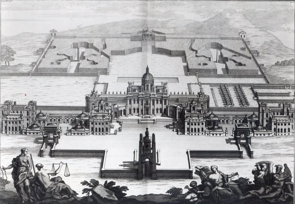 A view of John Vanbrugh's complete project for Castle Howard, from the north, published in the third volume of Vitruvius Britannicus in 1725. Some details, including the West Wing, were not built. Click on the image for an explanation.